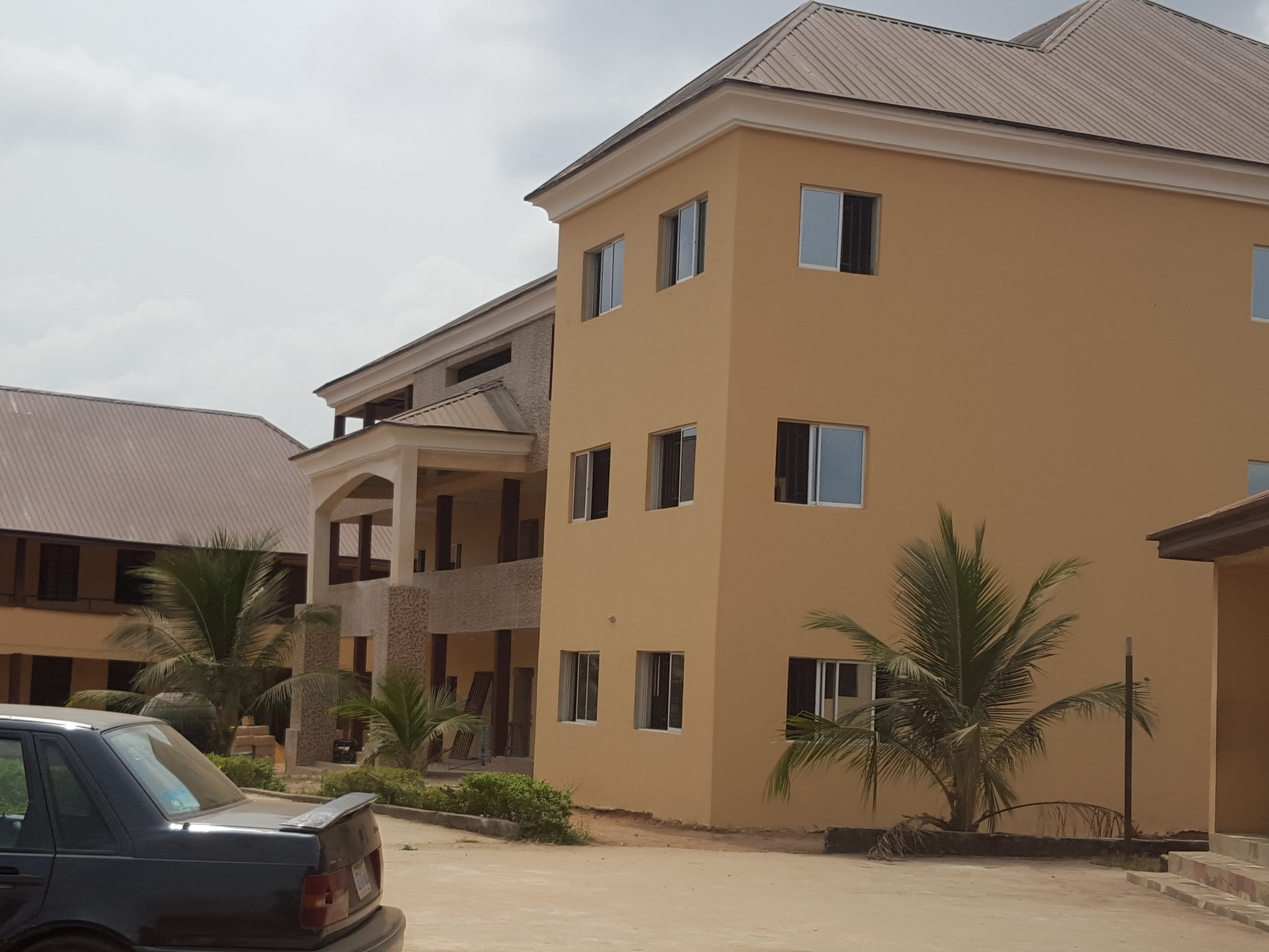 Science building at Ray Jacobs Boarding School